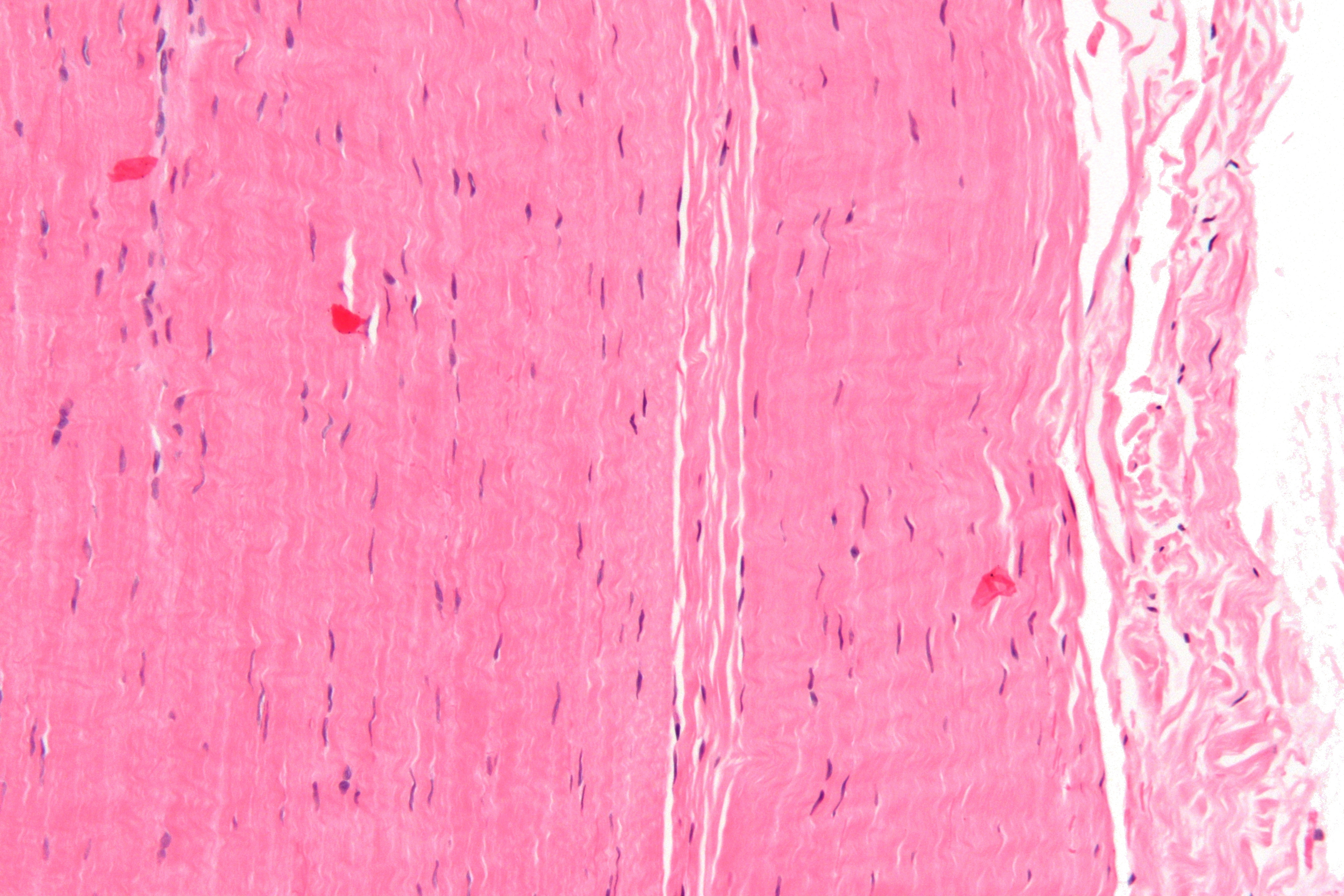 High magnification micrograph of a tendon removed in an excision for fibromatosis. H&E stain. Related images Intermed. mag. High mag. Very high mag. High mag.